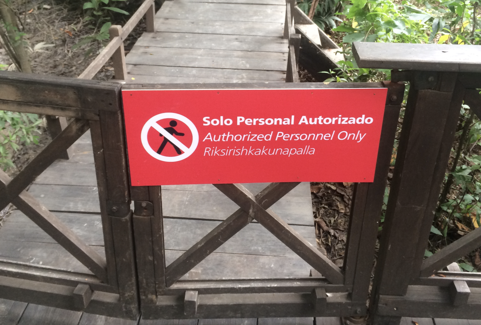 Sign at the Guayaquil Historical Park (Samborondón, Ecuador) in Spanish, English and Kichwa.